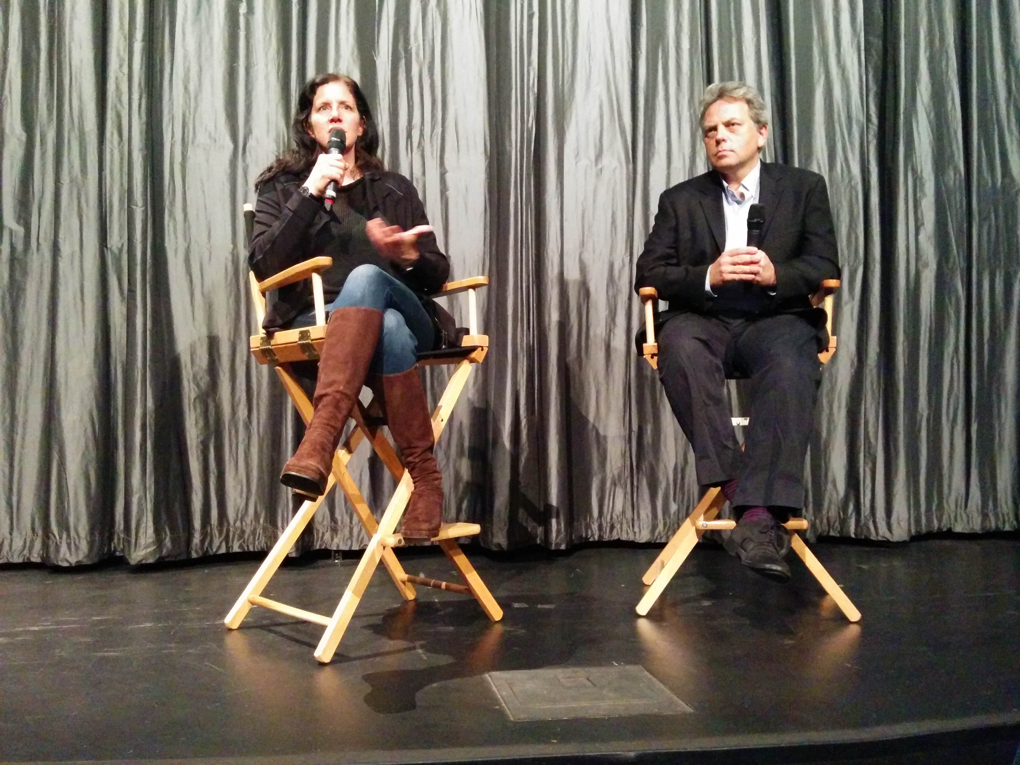 Laura Poitras introducing her film CITIZENFOUR about Edward Snowden at the IFC Center in NYC.